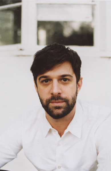 Photo of Nick Weidenfeld.